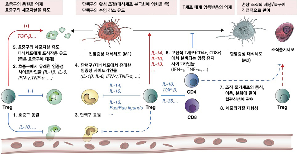 Korean translation version from the Figure 1 of [1]